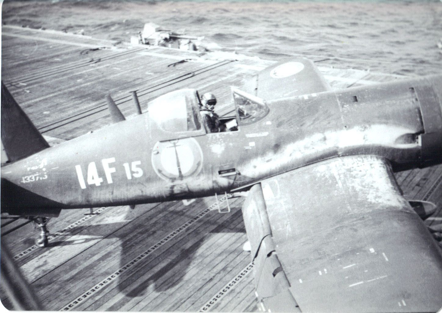 A Vought F4U-7 Corsair on the French aircraft carrier La Fayette (R96) in 1962.